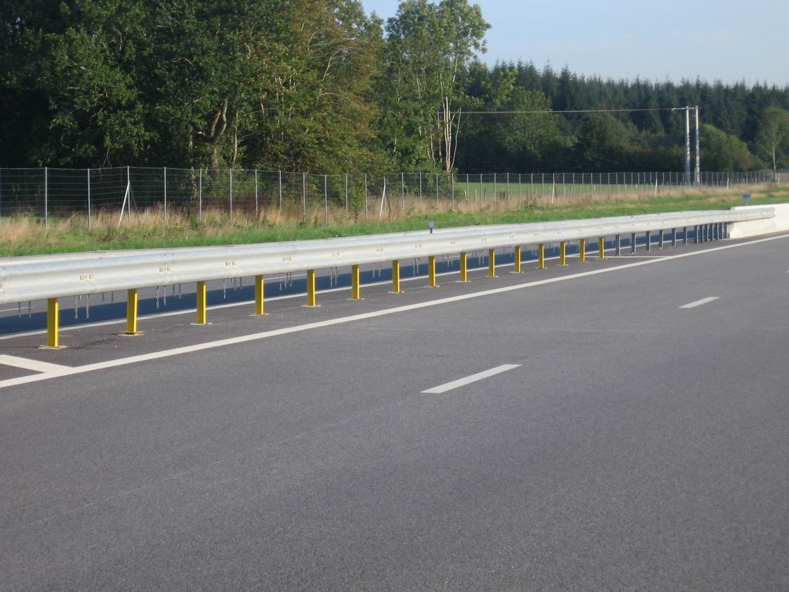 A removable median barrier (guard rail) on a French Expressway.